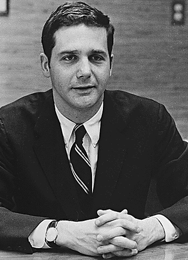 Jeb Stuart Magruder, Watergate Figure